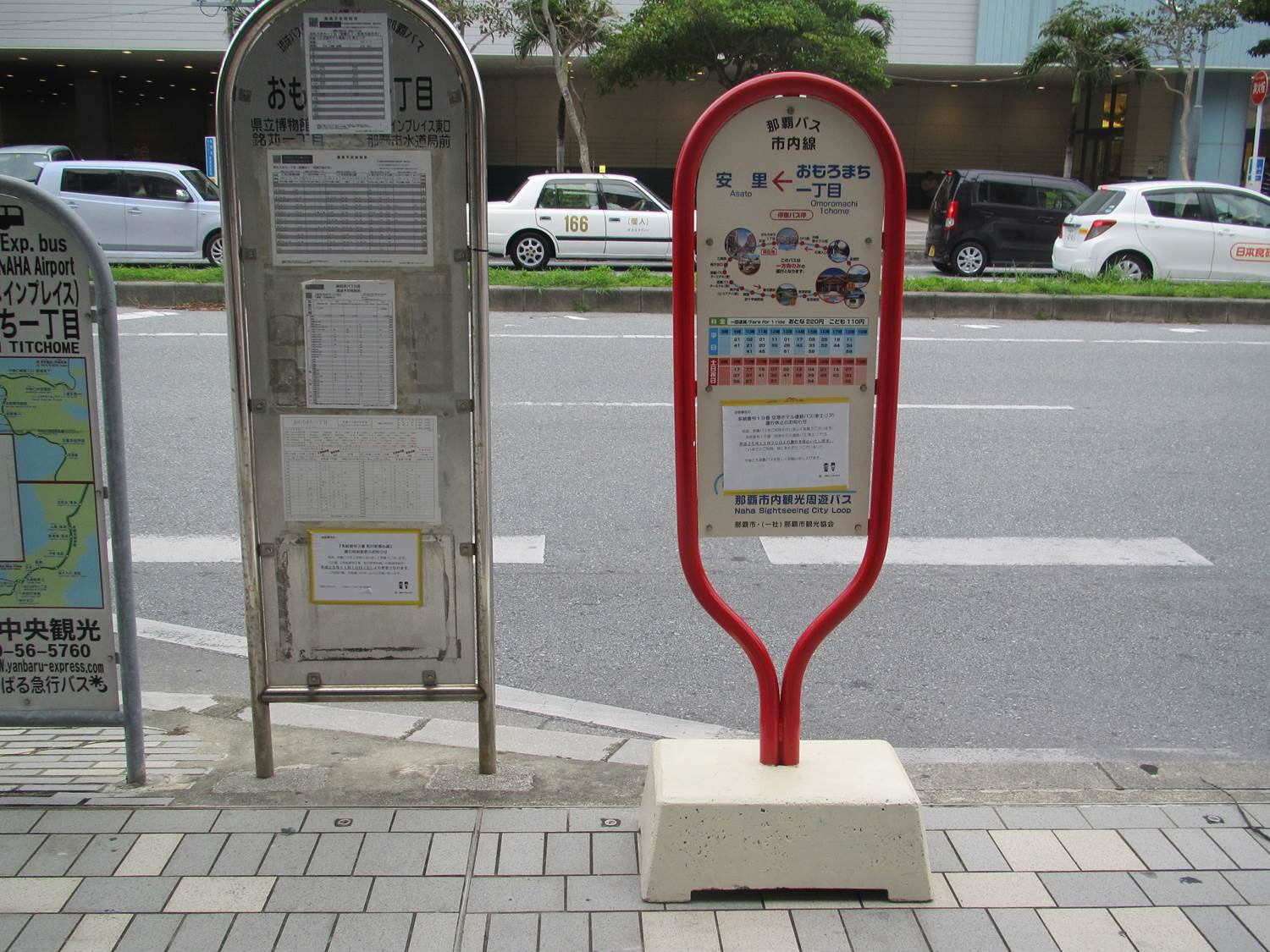 Naha Sightseeing City Loop Bus Omoromachi 1-chome Bus Stop